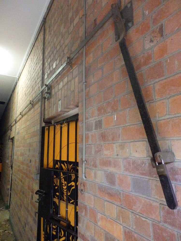 Southern cell block, N wall of passage, door release and locking mechanism, from E (EHP, 2016)